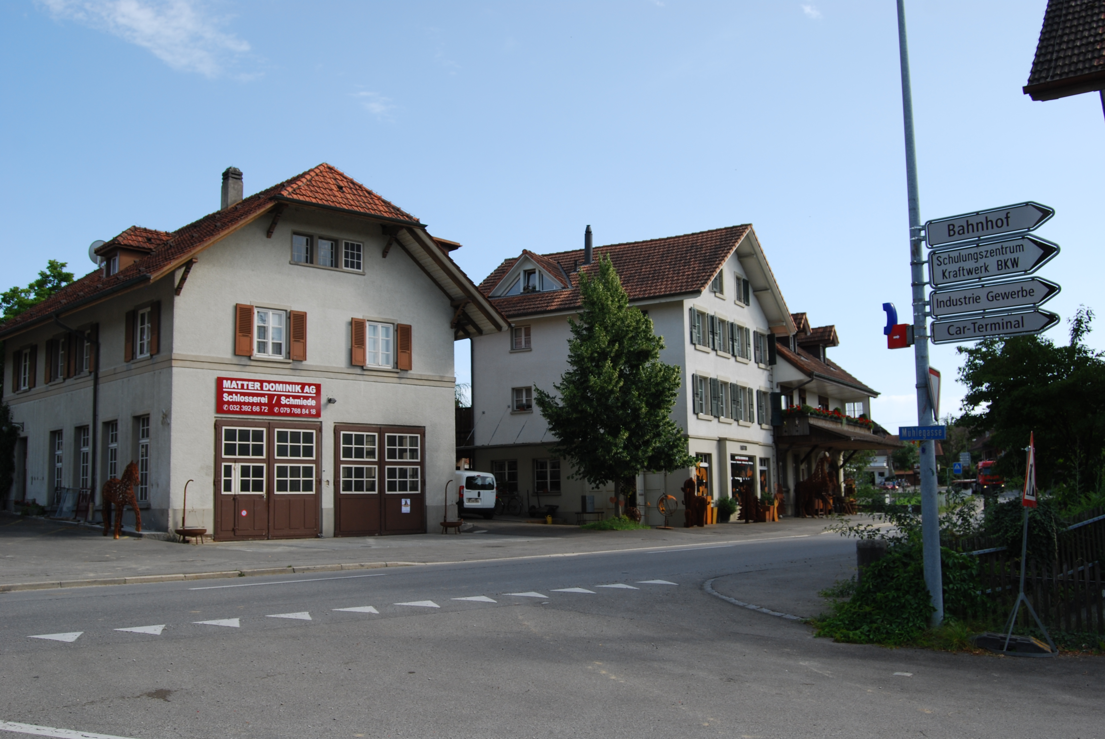 Kallnach, canton of Bern, SwitzerlandEsperanto: Kallnach, Kantono Berno, Svislando